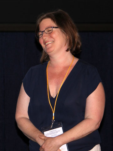 Ana Mulvoy-Ten and writer/director Marya Cohn during the Q&A for "The Girl in the Book"